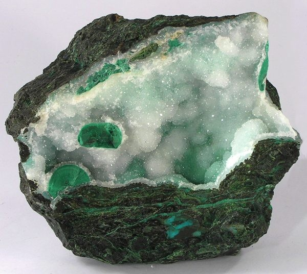 Malachite, Quartz, Chrysocolla Locality: Inspiration Mine, Miami-Inspiration deposit, Inspiration, Miami-Inspiration District, Globe-Miami District, Gila County, Arizona, USA (Locality at ) Size: 15.2 x 13.4 x 6.4 cm. A BIG specimen of a collector favorite from Arizona. In this case, instead of being on chrysocolla, the sparkly quartz crystals are on a layer of malachite, which is in turn on a layer of chrysocolla. These are usually seen in small specimens, but the area of crystallization here measures 12 cm in length - this is basically a big pocket that was removed intact! This is an old-timer, and hard to find, especially in a specimen this large and rich! Probably 40 years out of the ground, this one.